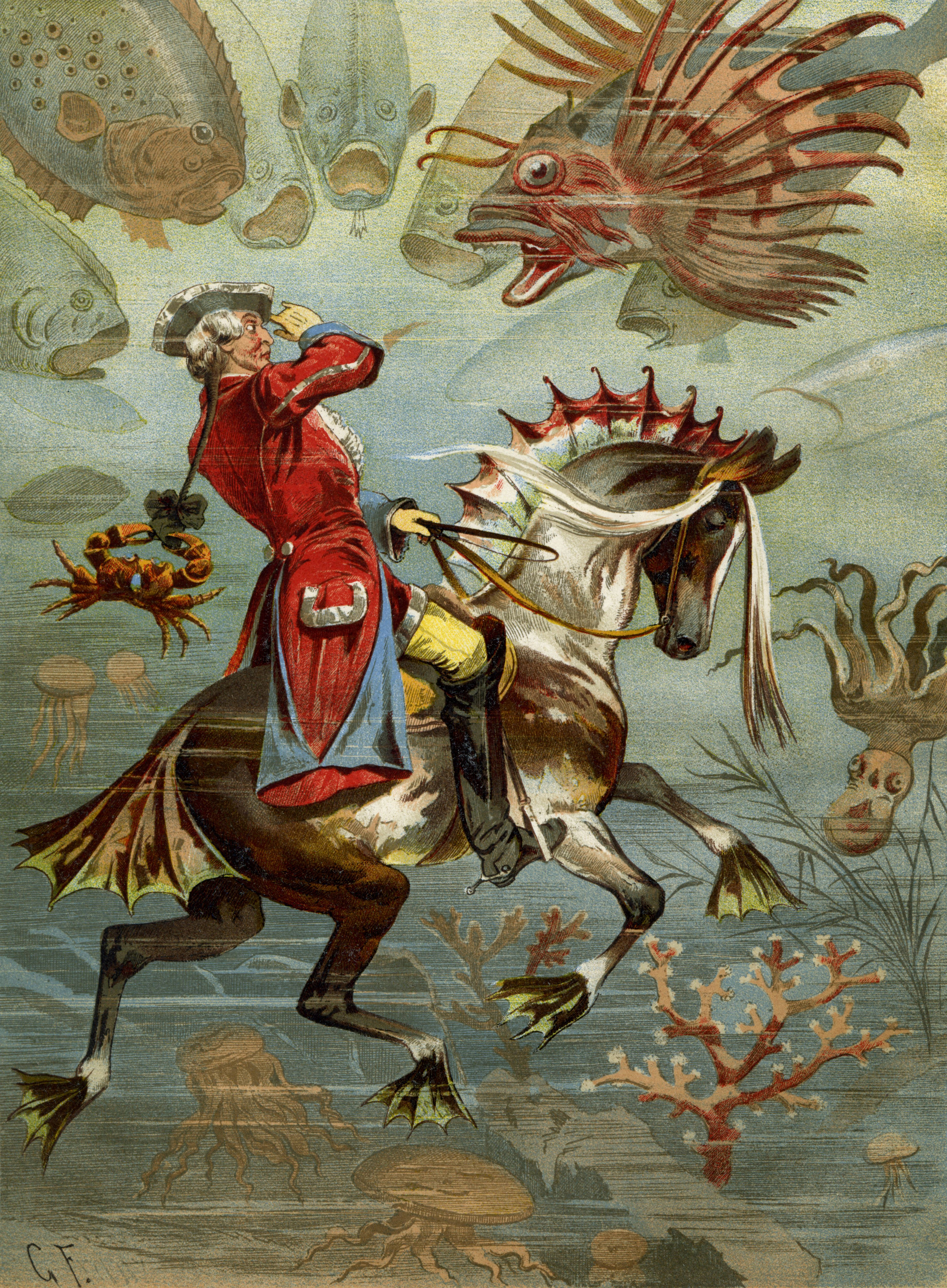 Pic. 1. Baron Münchhausen underwater.